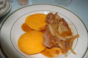 Tortillas_con_biste_de_higado